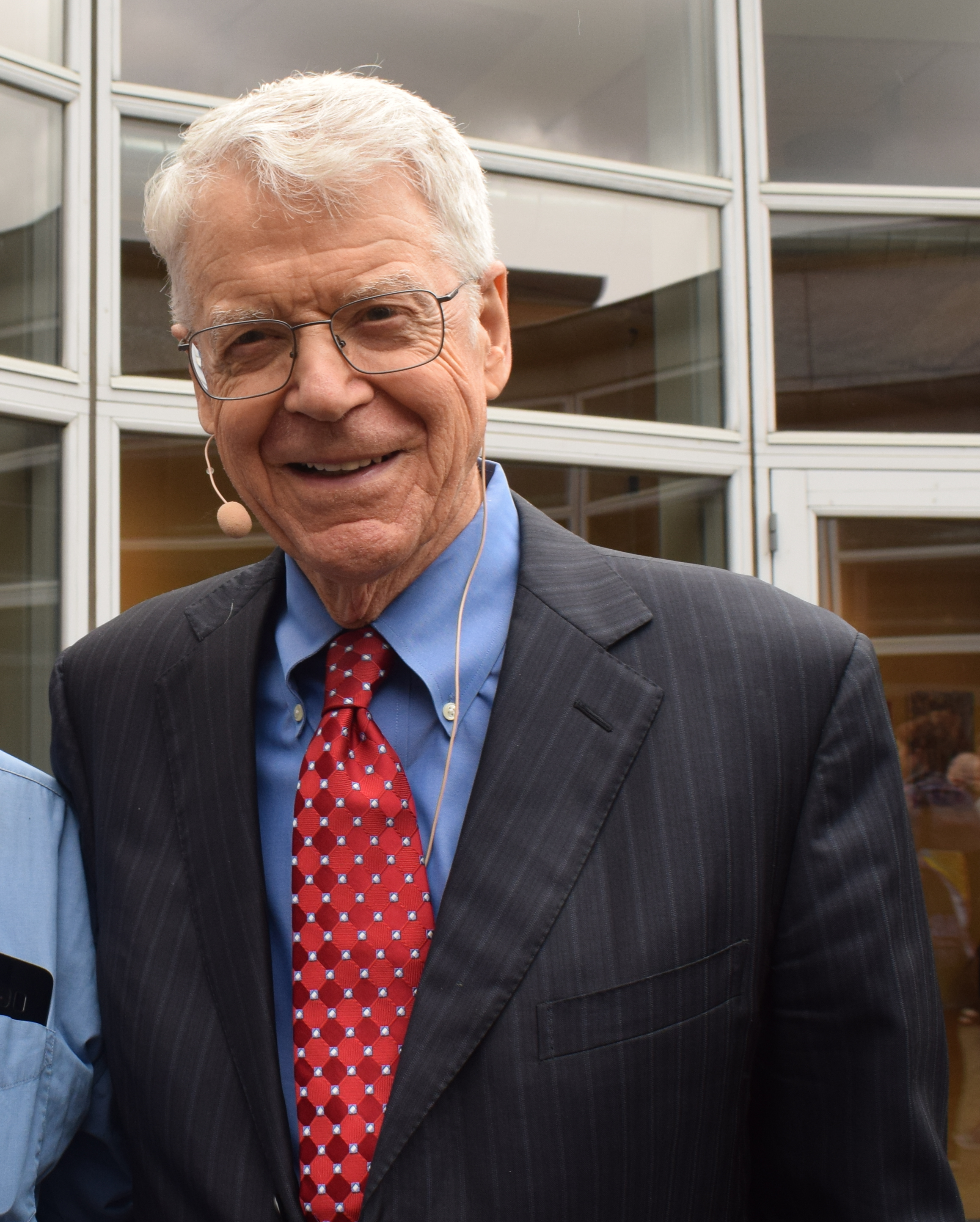 Dr. Caldwell Esselstyn giving a lecture in Copenhagen, Denmark 26th of may 2019.